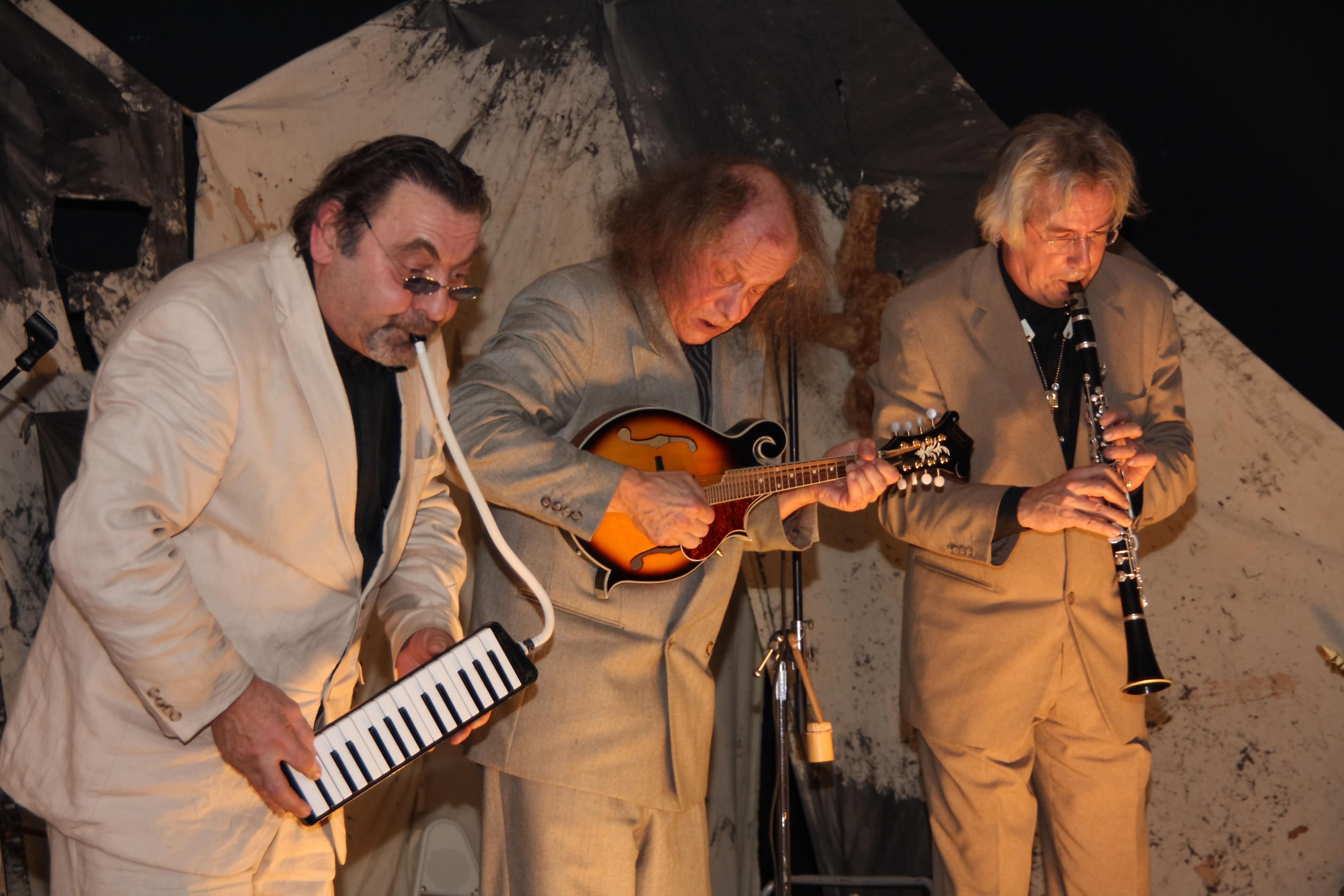 German Comedians Ars Vitalis with the Progran Fahrenheiten at the Kult, Niederstetten.